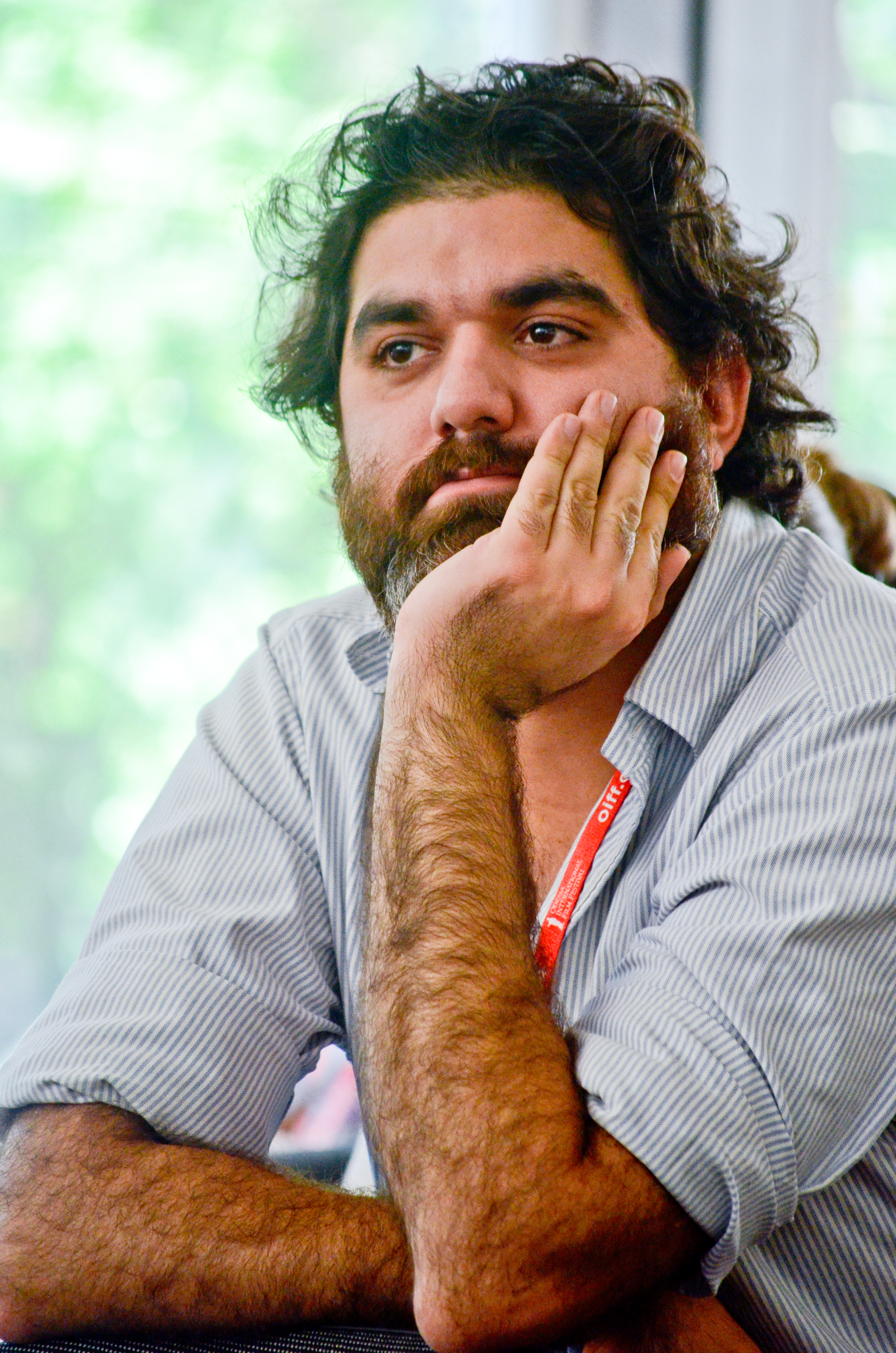 Iranian film director Morteza Farshbaf at the 6th Odessa International Film Festival.